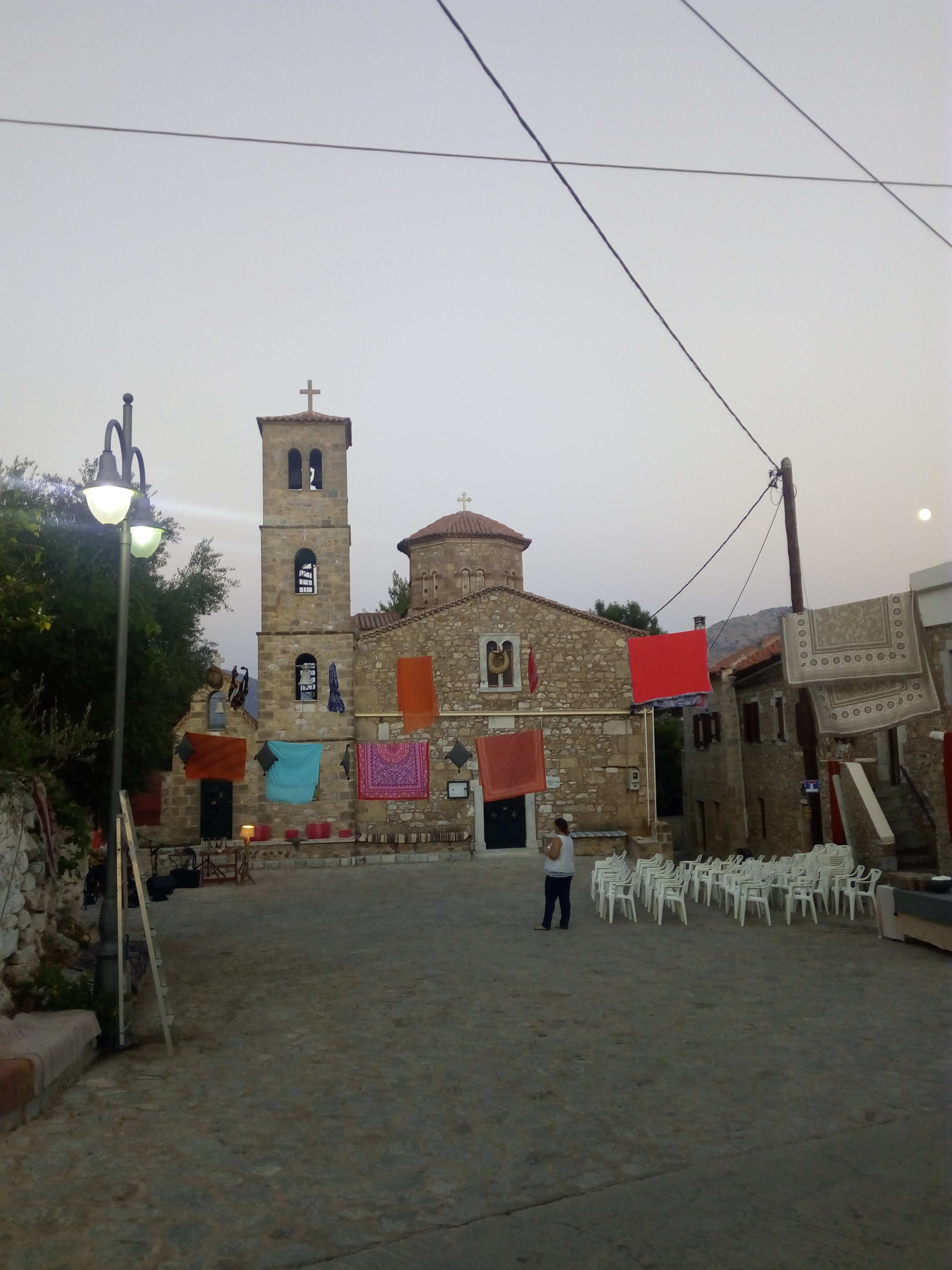 Taxiarchis Church in Oitylo, Greece.